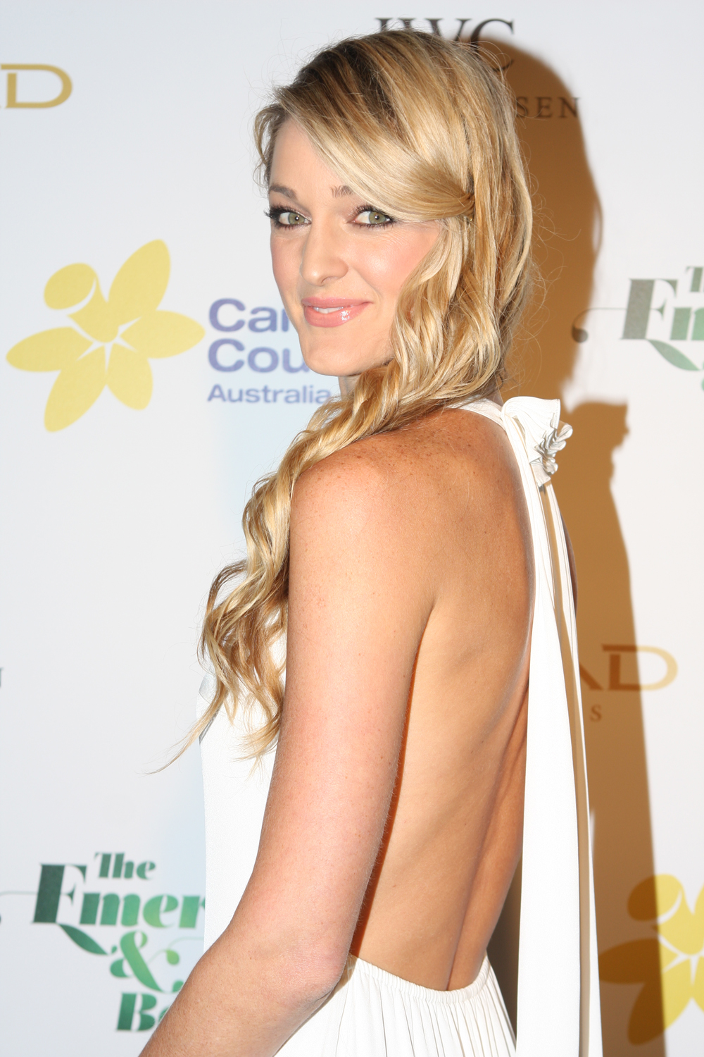 RONAN KEATING'S EMERALDS AND IVY BALL On Friday November 16, Ronan Keating and Cancer Council Australia will stage the Inaugural Emeralds and Ivy in Sydney at The Ivy Ballroom in Sydney. The glamorous black tie gala event will be hosted by Ronan Keating and The Morning Show's Kylie Gillies, and features a guest list that boasts a host of actors and entertainers, as well as fans and supporters of Cancer Council Australia. Guests will enjoy a spectacular three-course dinner in the stunning and intimate Ivy Ballroom and will be entertained by X Factor finalists, Vogue Williams and Ronan Keating. Funds raised through ticket sales and auction items on the night will go to the Cancer Council's Ronan Keating Fellowship.